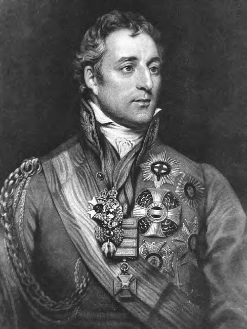 The Duke of Wellington, commander in chief of the Anglo-Portuguese and Spanish armies, which he led to victory in the Peninsula. He later commanded the Anglo-Allied army during the Waterloo campaign in 1815.